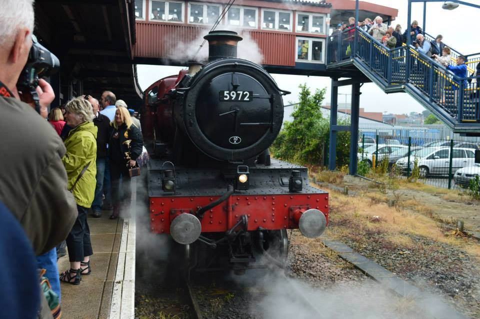 GWR 4900 4-6-0 no 5972 Olton Hall (Hogwarts Castle) standing at York after arriving with the Wizards Express from Manchester Victoria.